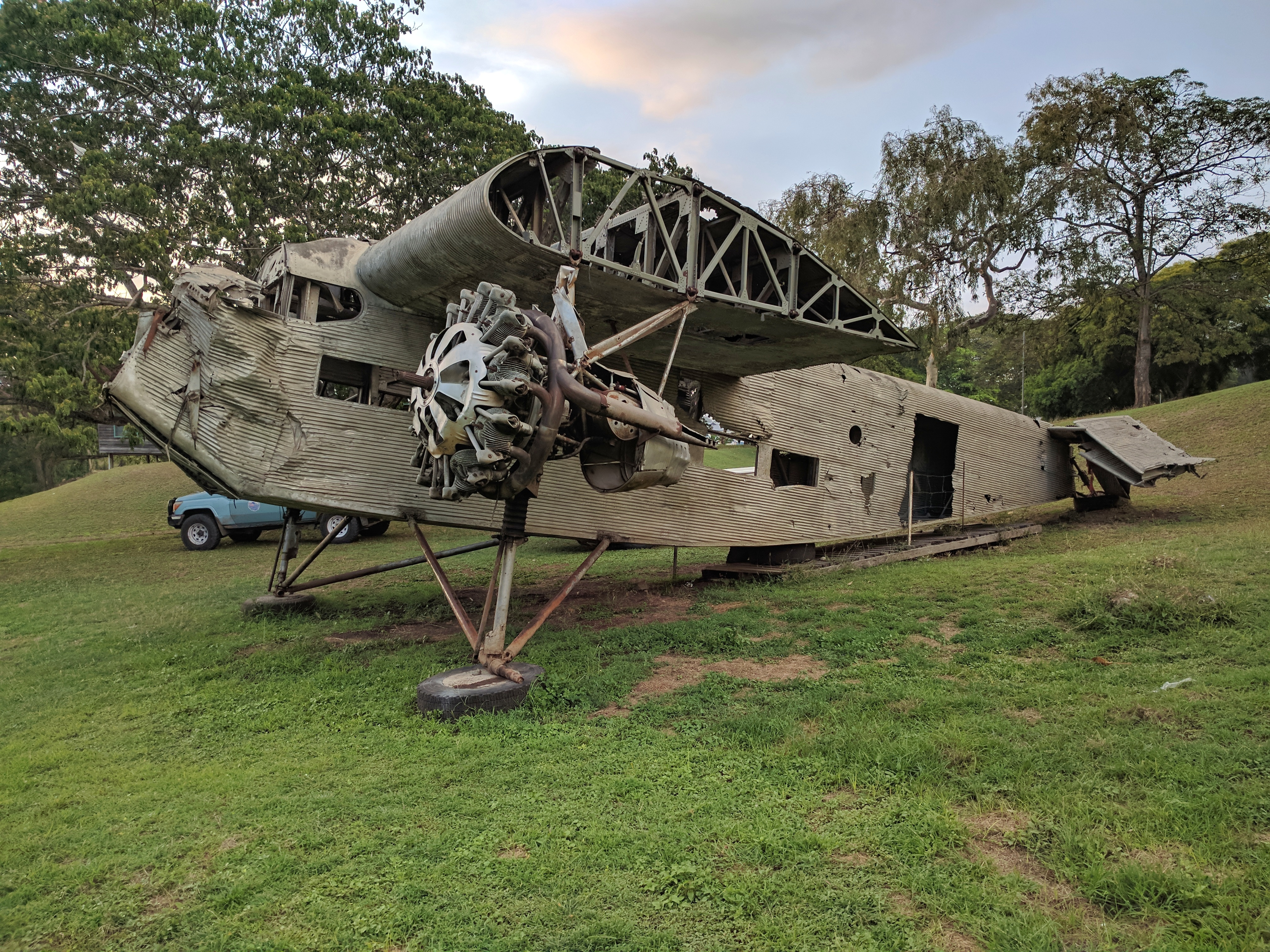 Constructor's number 5-AT-60